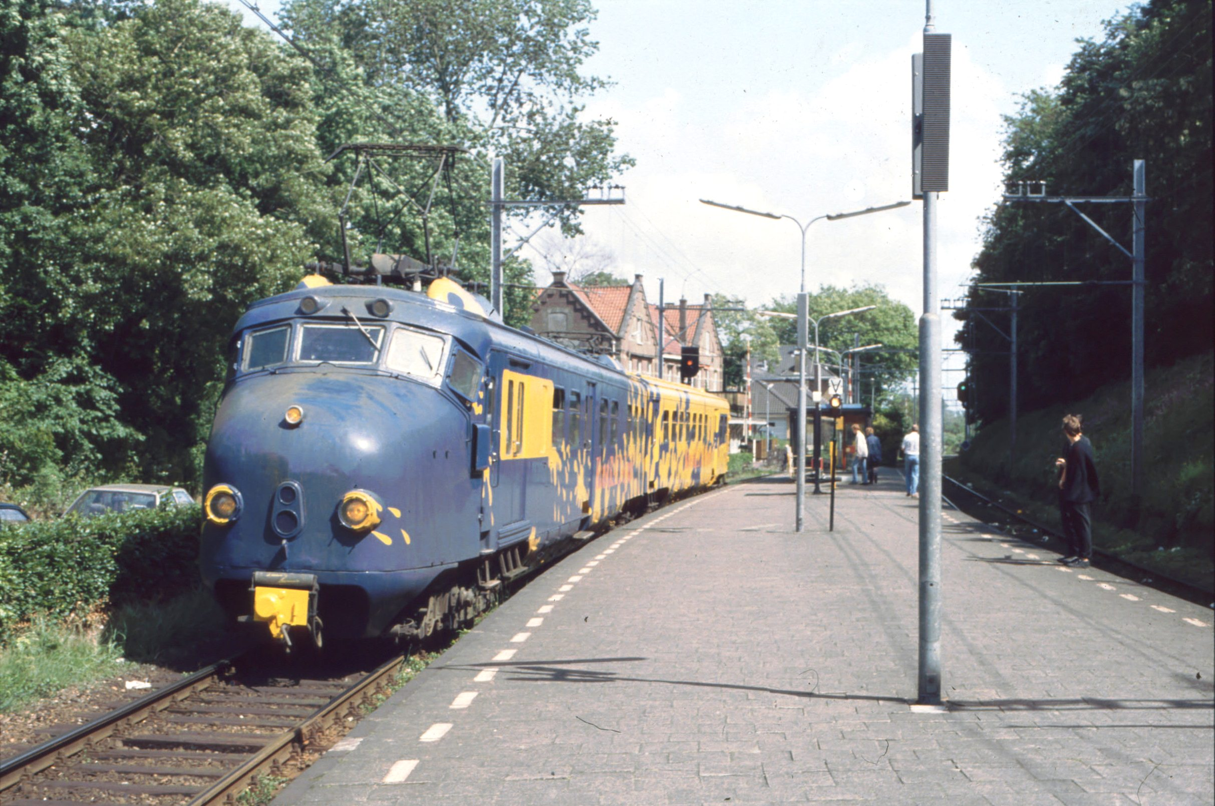 NS Mat '54 - Art decoration - Overveen 31-5-1993